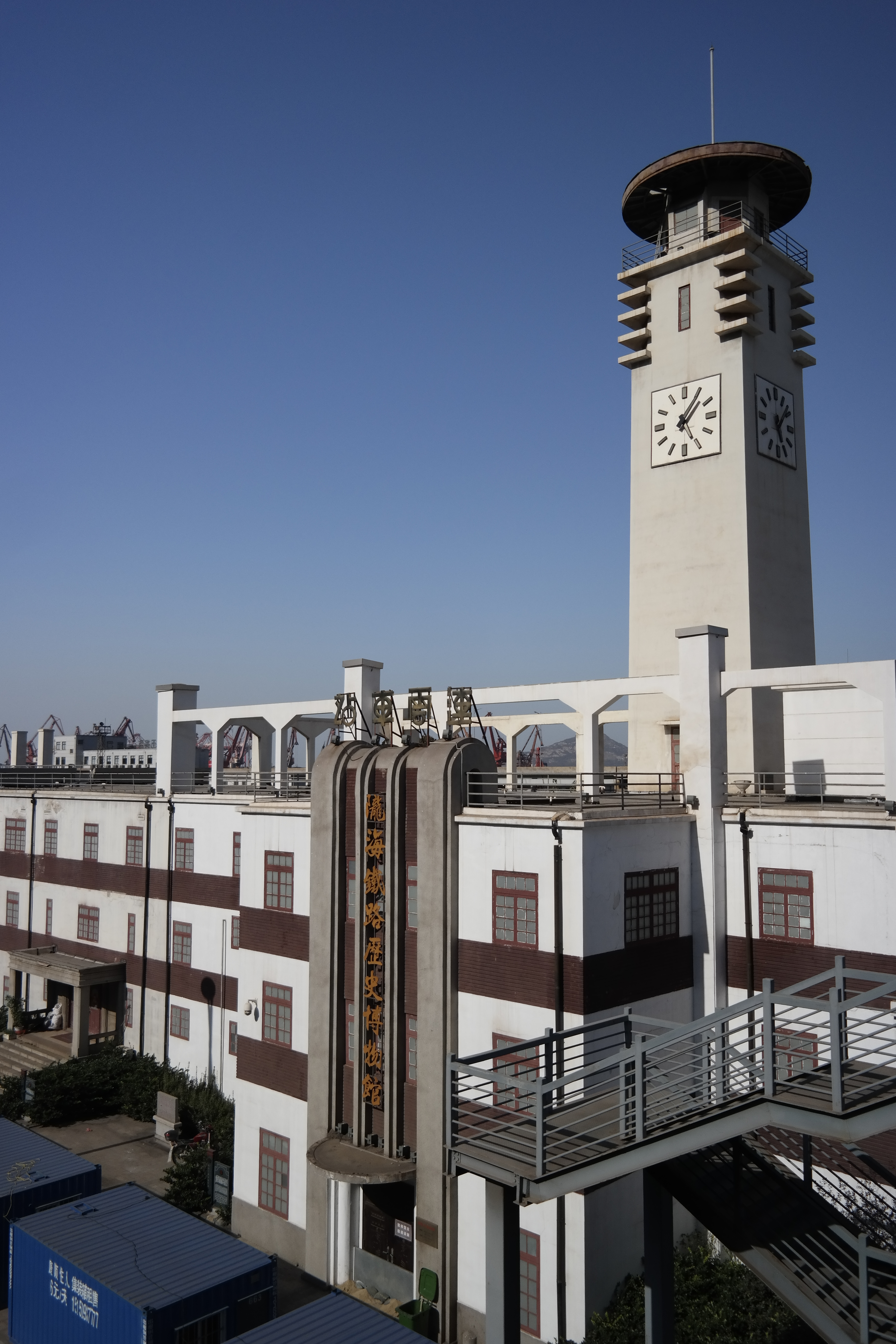 Lianyun Railway Station